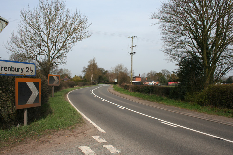 A530 road at Broomhall Green, Broomhall civil parish, Cheshire